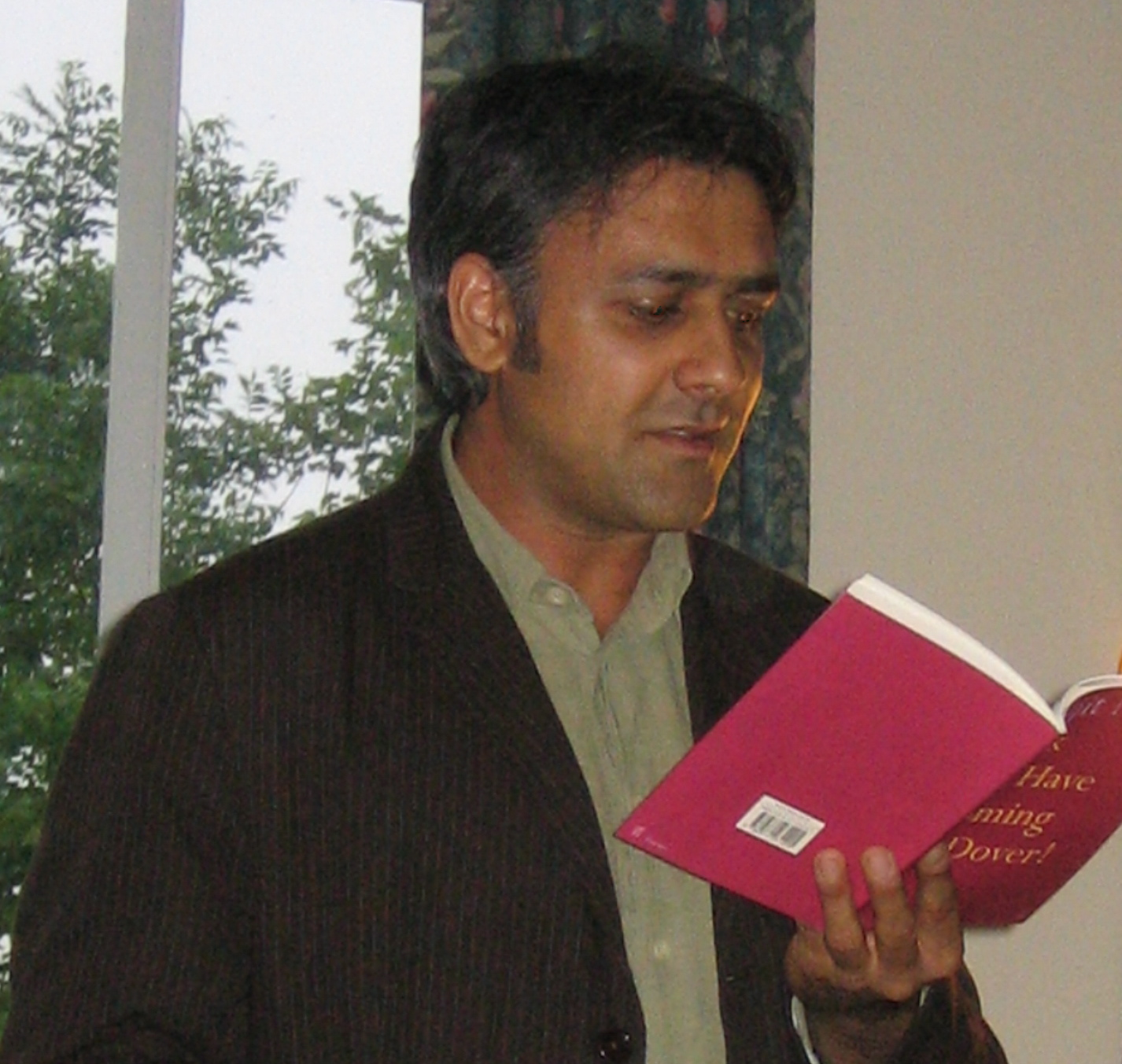 Poet Daljit Nagra reading from his collection on 15 June 2007